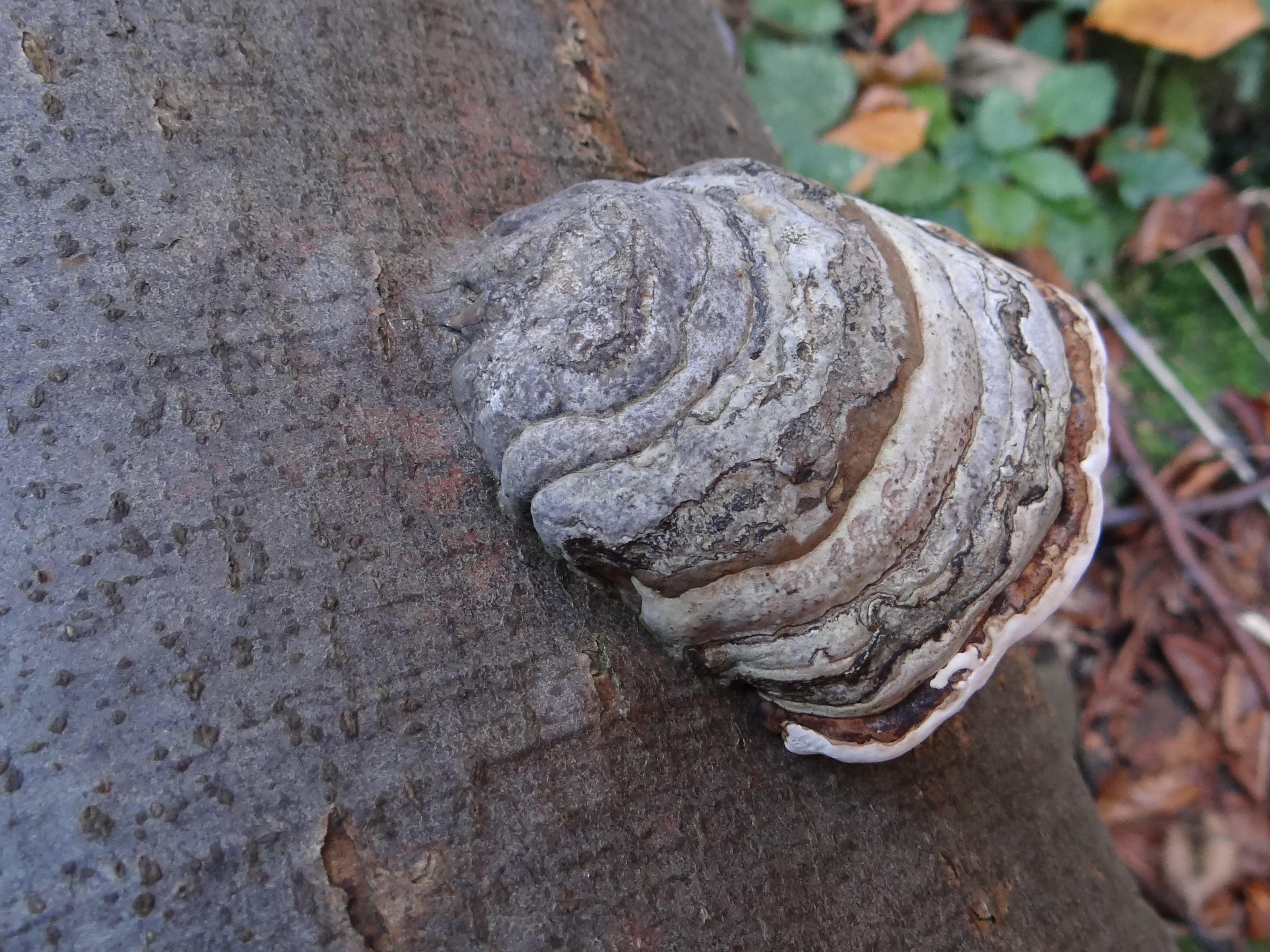 Fomes fomentarius on Fagus sylvatica. Location: Polan d, Gorce